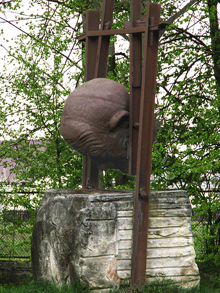 Centre of Polish Sculpture - Oronsko, Zbigniew Fraczkiewicz, Head,1984